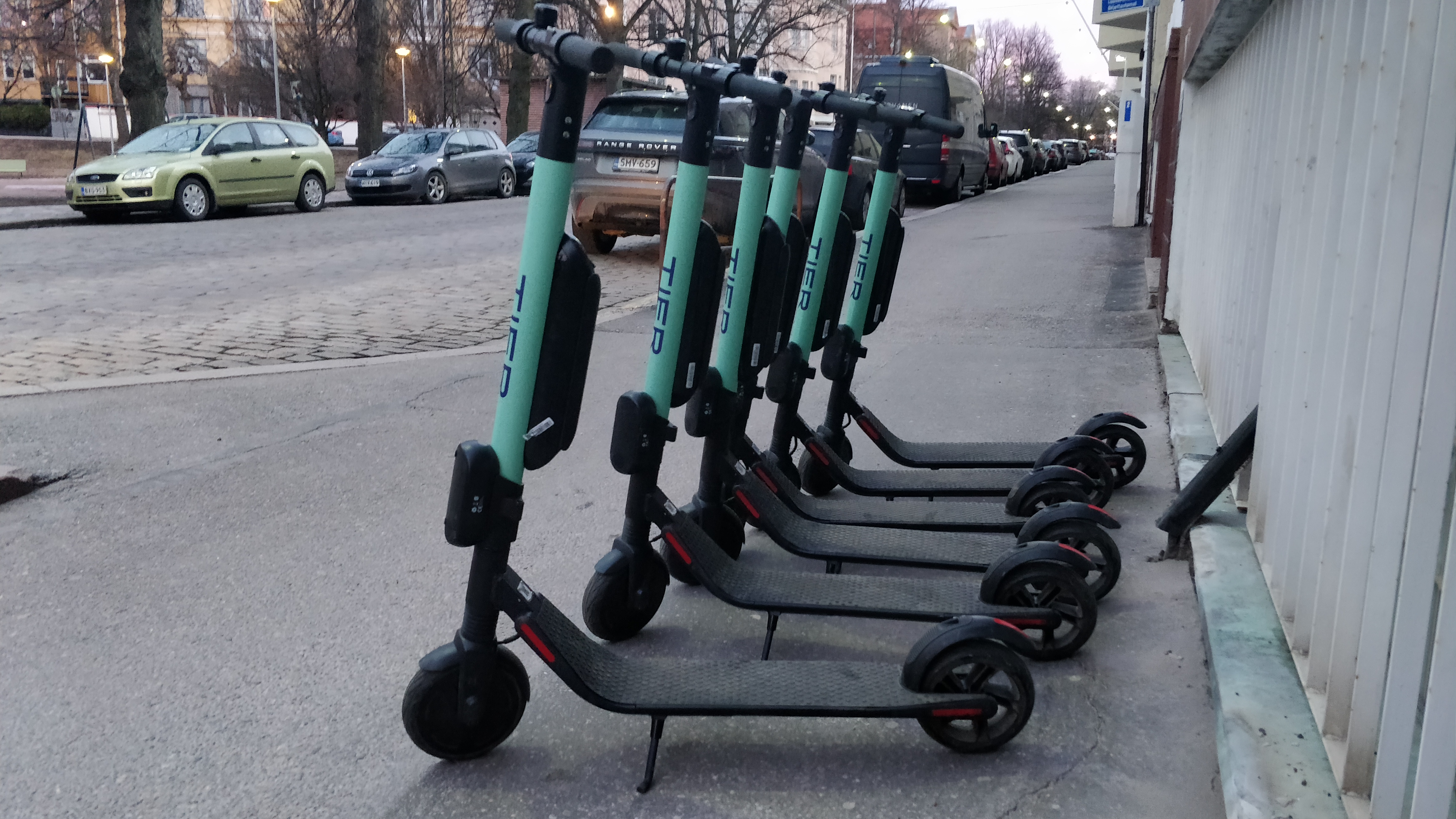 Electric scooters in Finland in spring 2019. These can be rented with a mobile application. There are two companies in Helsinki that rent them, one is Swedish and the other is German. This model is from a German company.